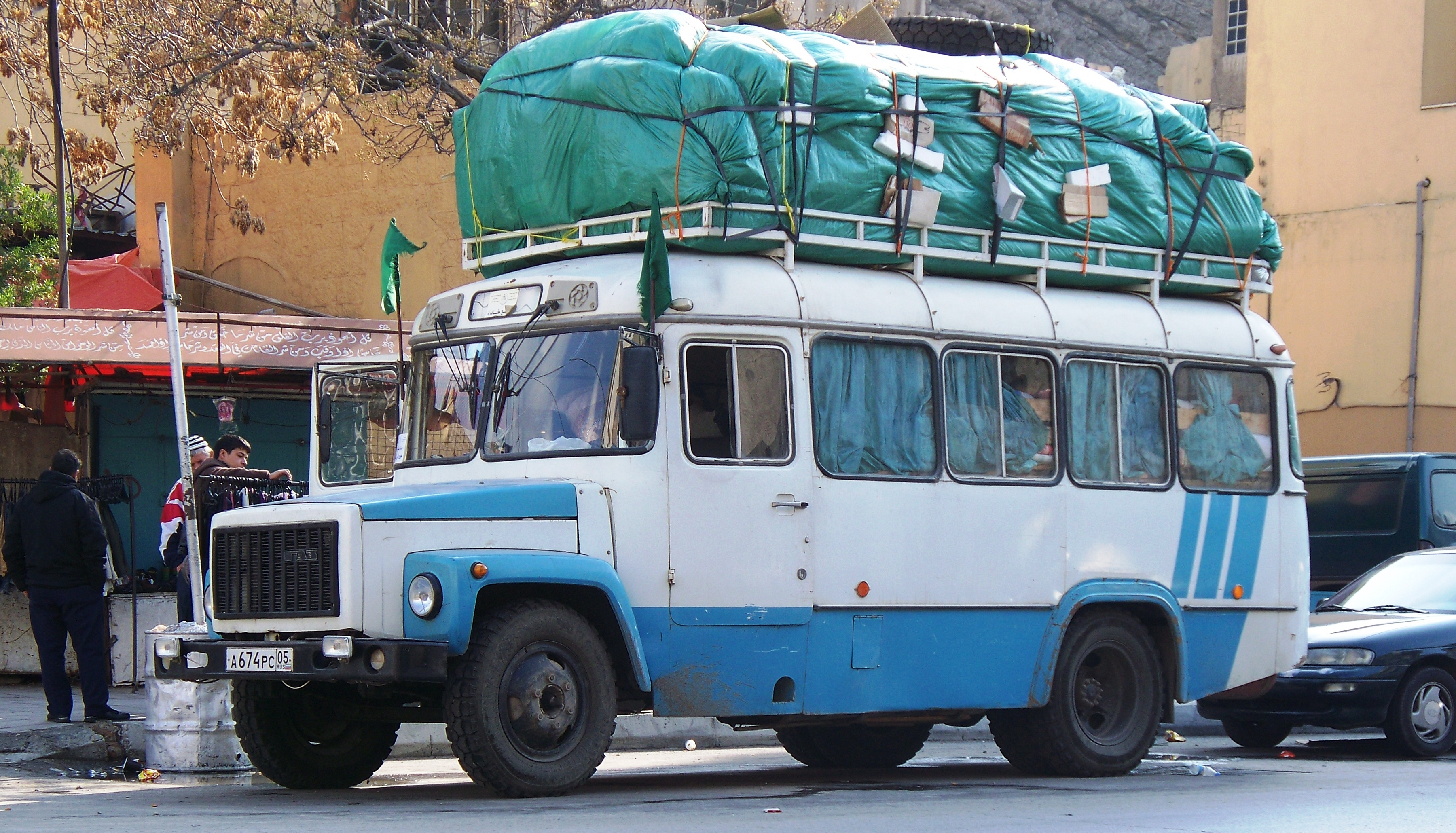 Russian GAZ-bus (reg. A 674 PC 05) in Amman, Jordan.